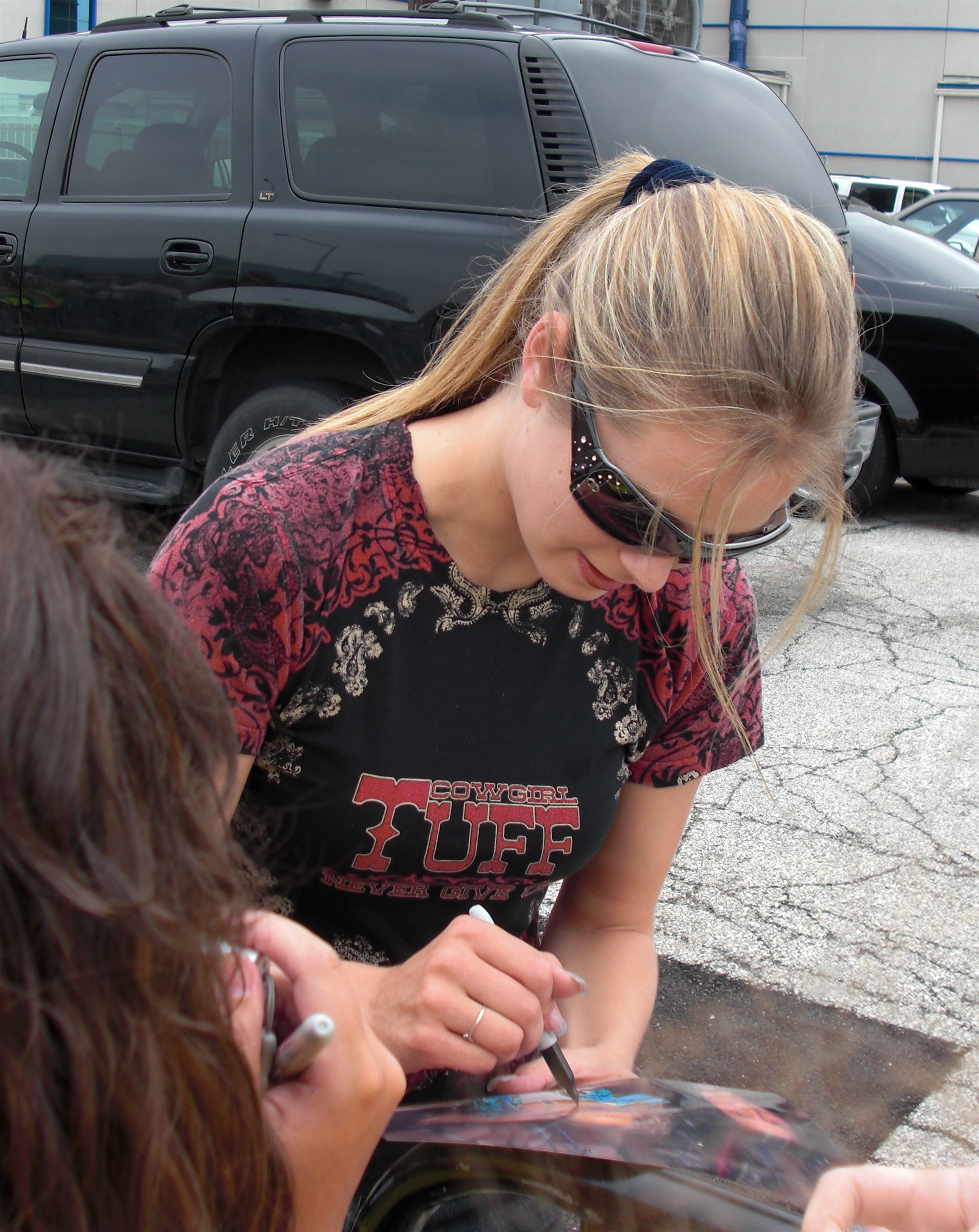 Kristy Lee Cook signs autographs during the American Idols LIVE! Tour in Rosemont, Illinois, USA.